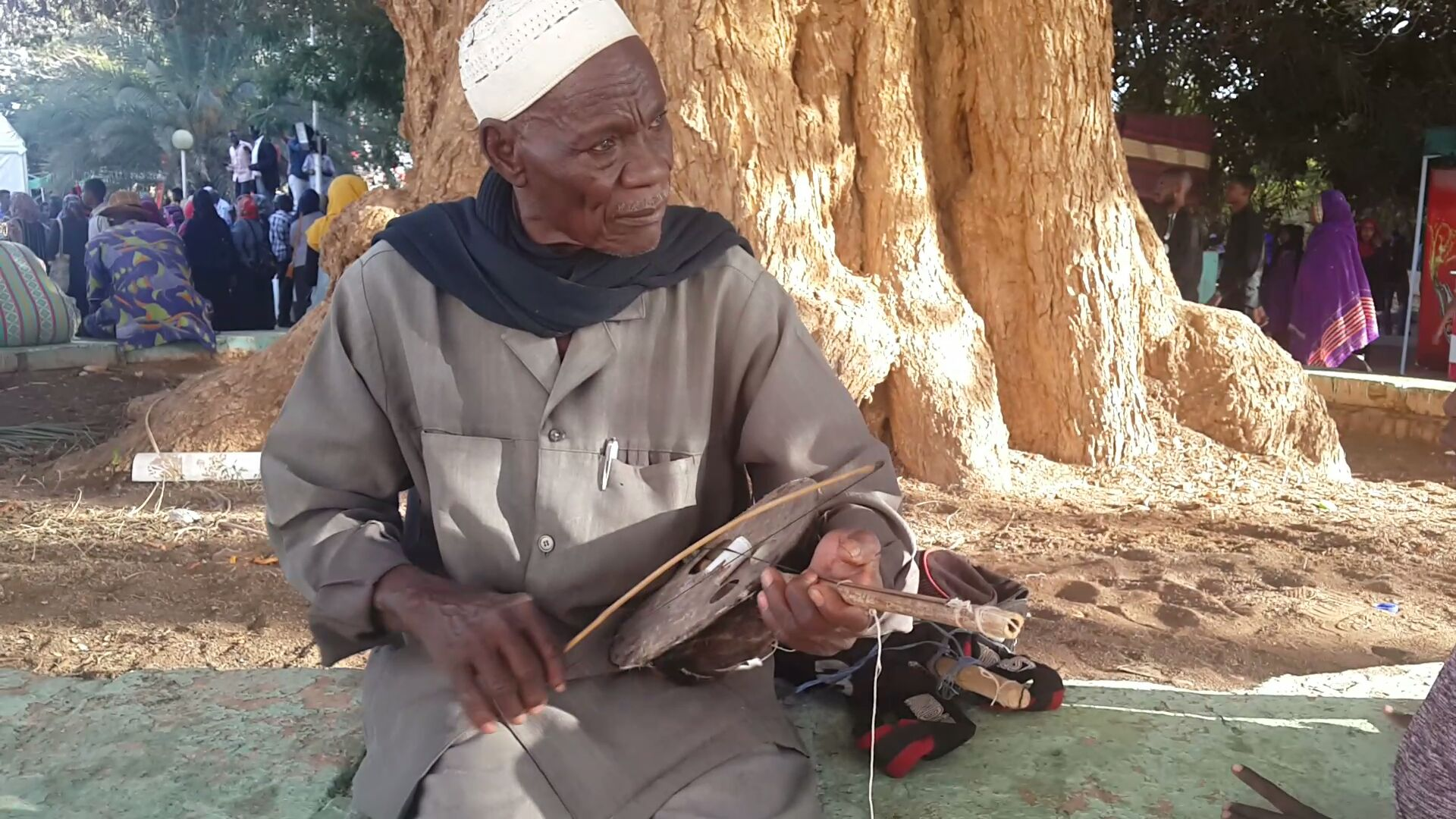 An elder Sudanese man with simple music in an old Sudanese folklore.